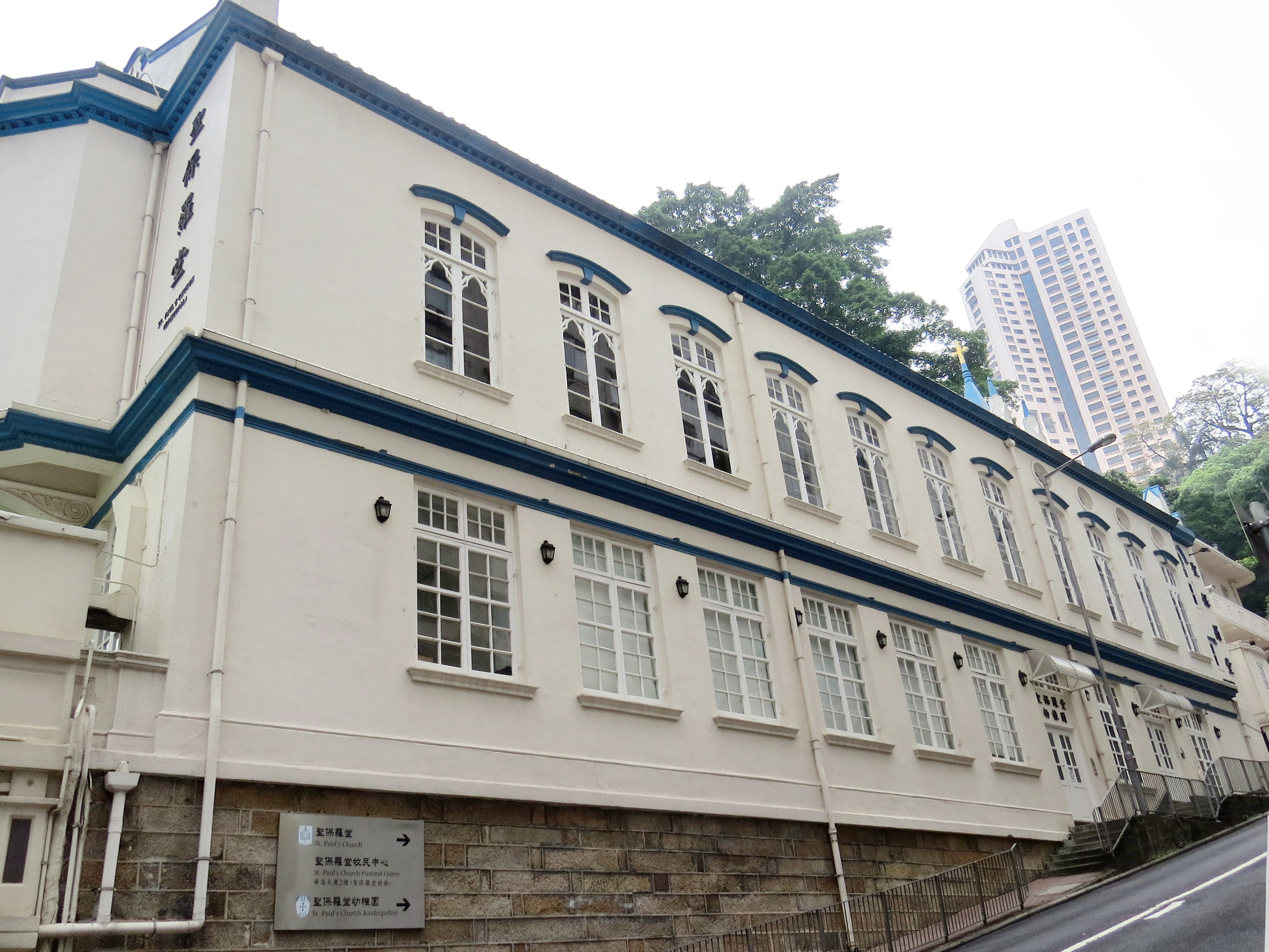 Hong Kong Sheng Kung Hui St. Paul's Church, Glenealy, Central, Hong Kong.